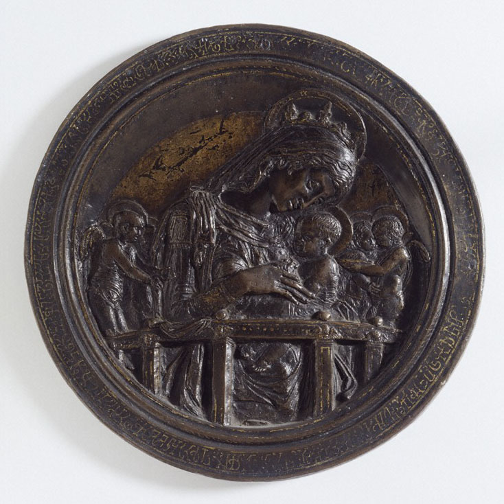 The Virgin and Child with Four Angels, before 1456, Donatello V&A Museum no. A.1-1976 Techniques - Gilded bronze Place - Florence, Italy Dimensions - Diameter 28.3 cm, Depth 2.7 cm